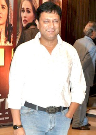 Actor Kiran Karmarkar at the success-party of the film Raajneeti.